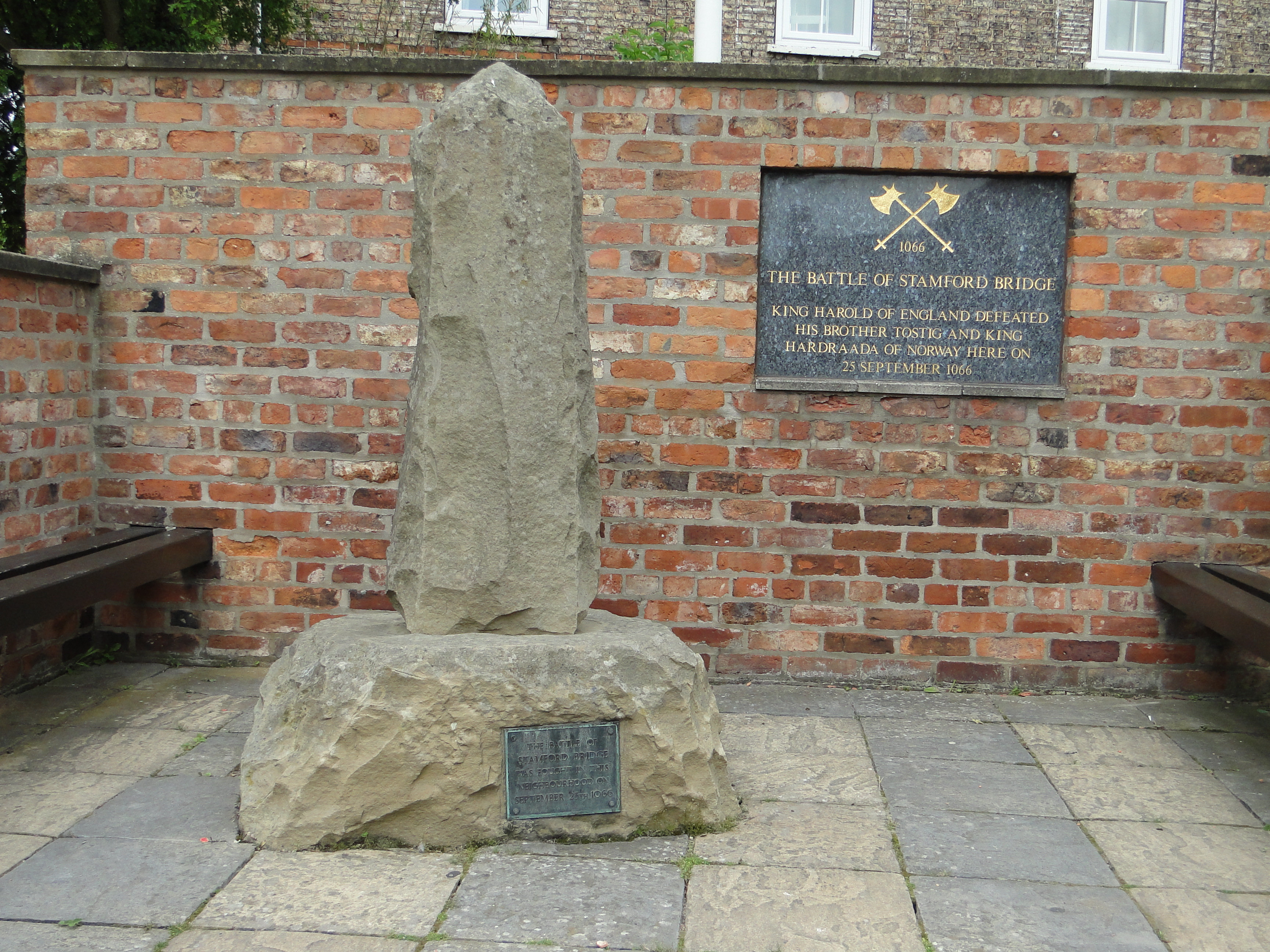 Plaque commemorating the battle in 1066 in Stamford Bridge, East Riding of Yorkshire, England.